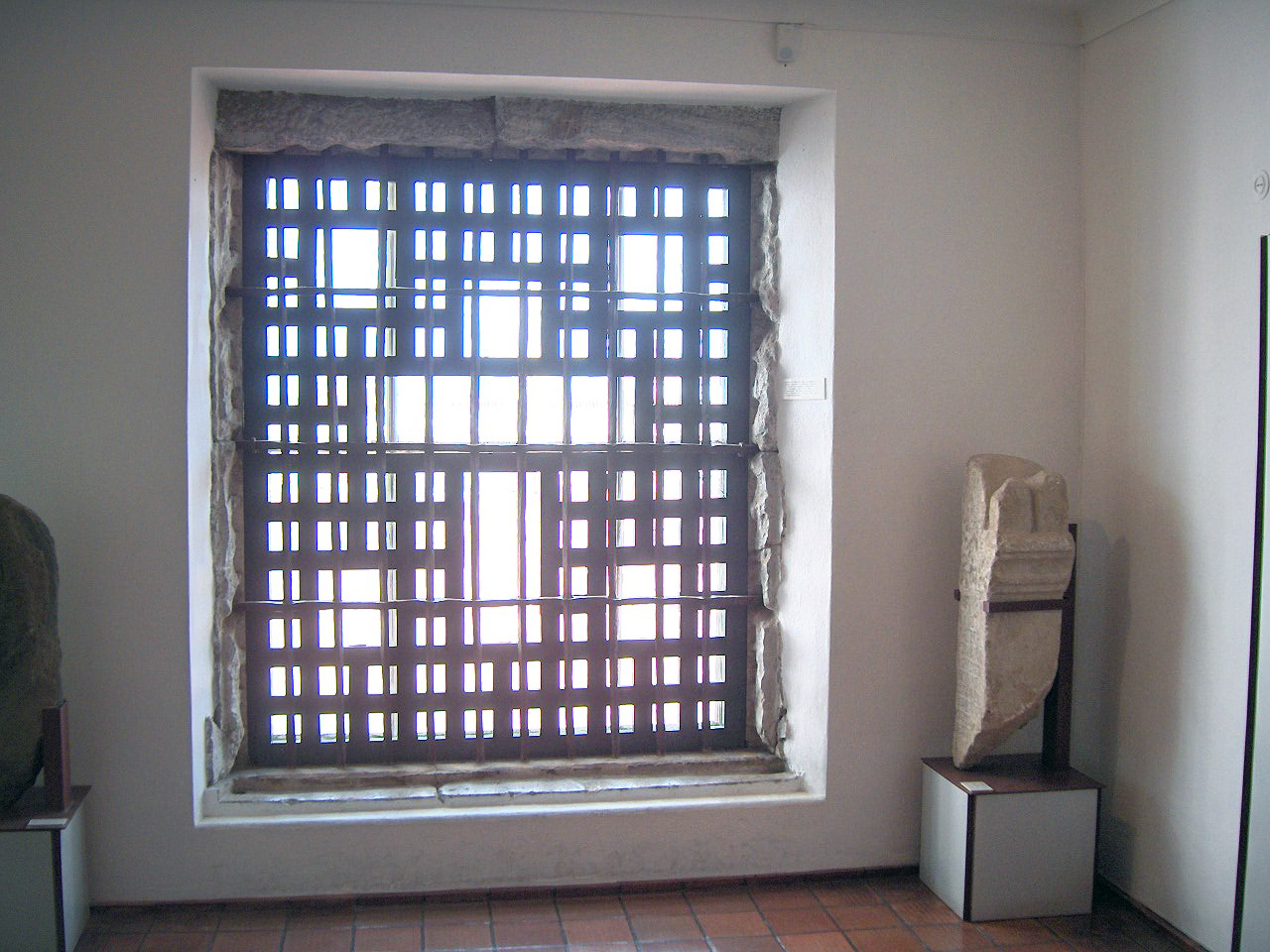 The window where sister Mariana Alcoforado can see the Count Chamilly; Museu da Rainha D. Leonor; Beja, Portugal